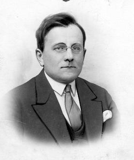 Polish politician and musician Janusz Miketta